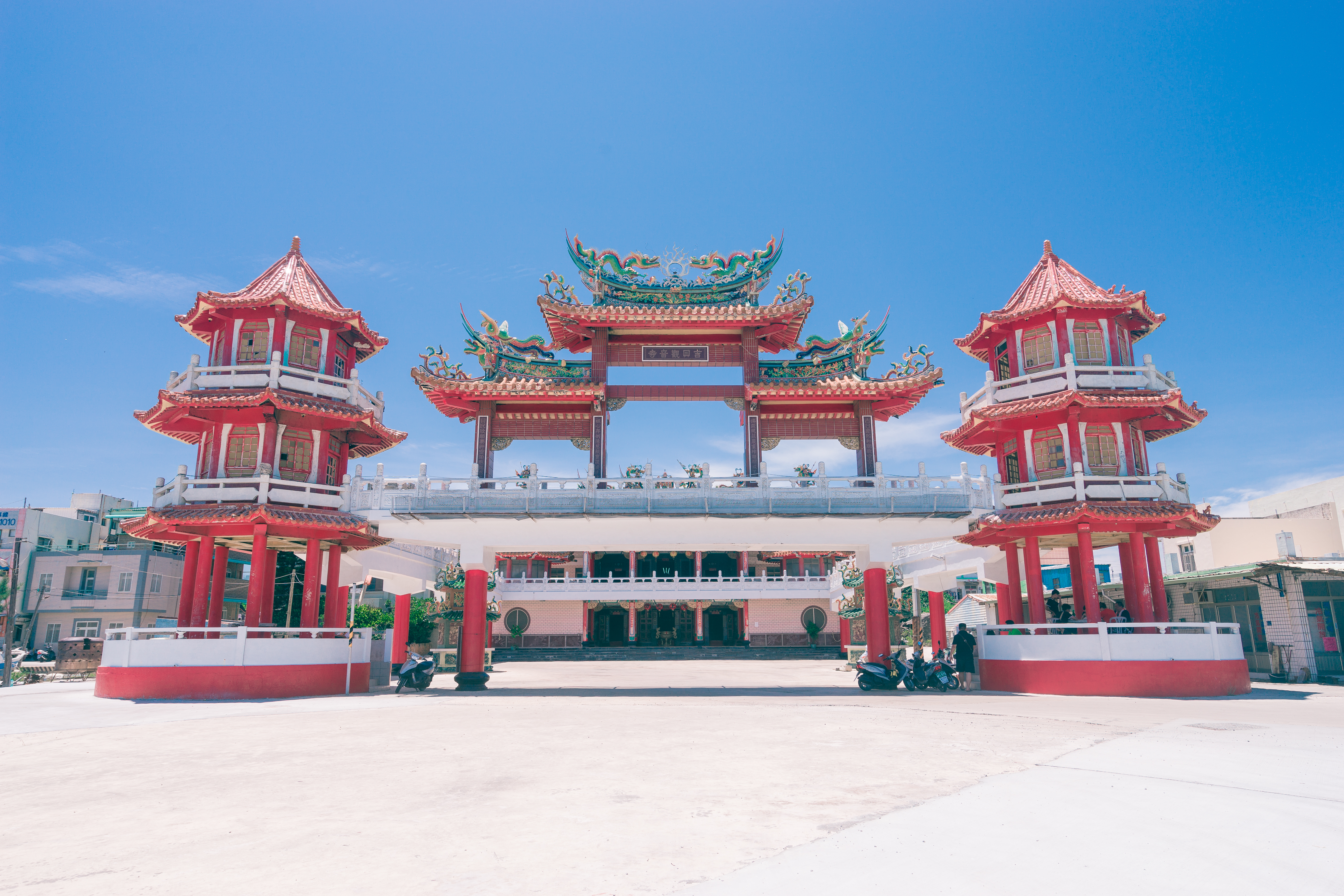 Jibei Guanying Temple.